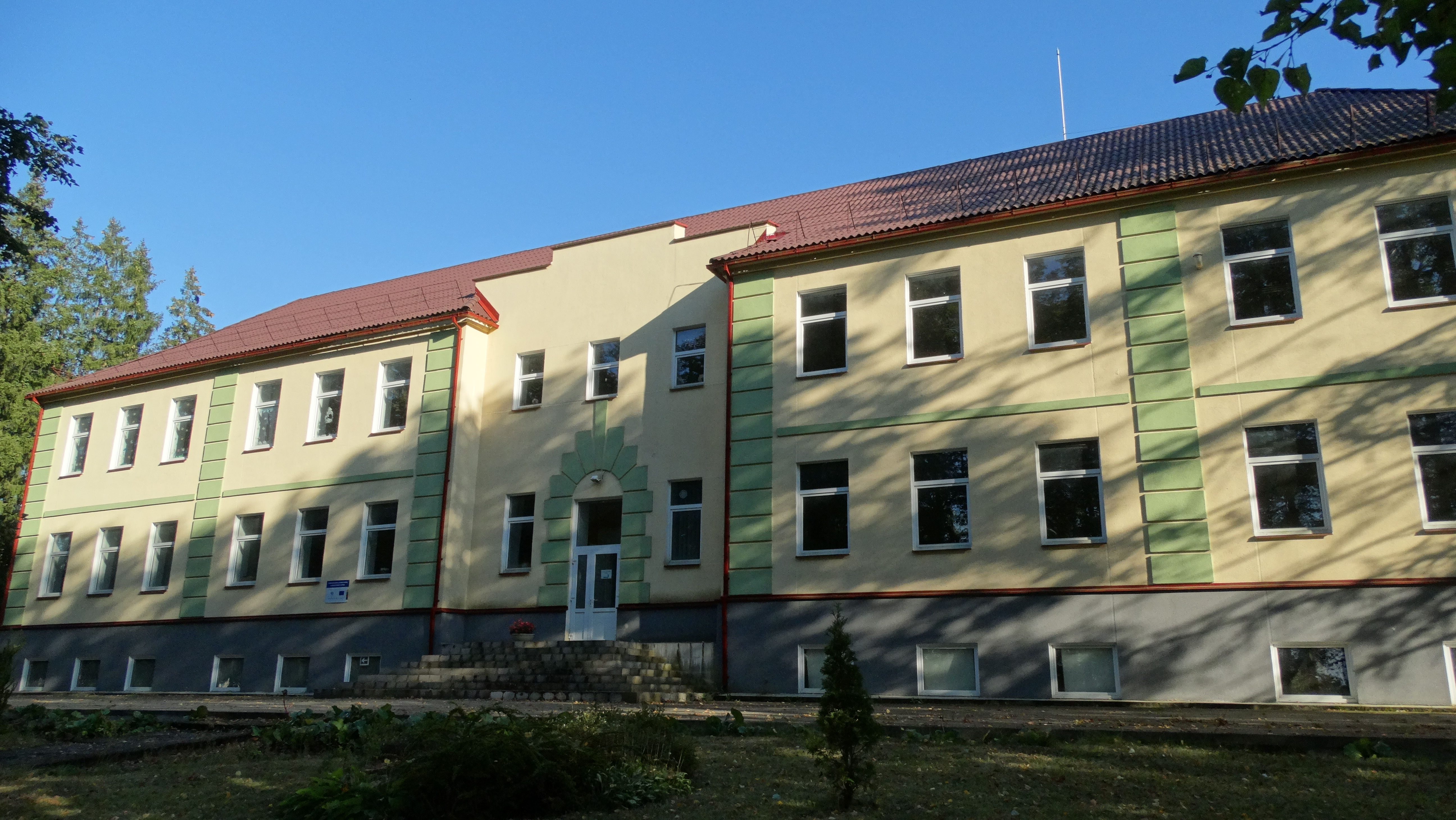 Child care home, Pabradė, Švenčionys District, Lithuania